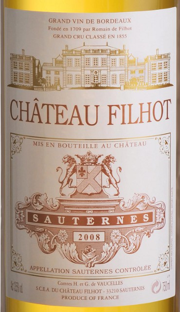 Sauternes Chateau Filhot 2008 bottle label